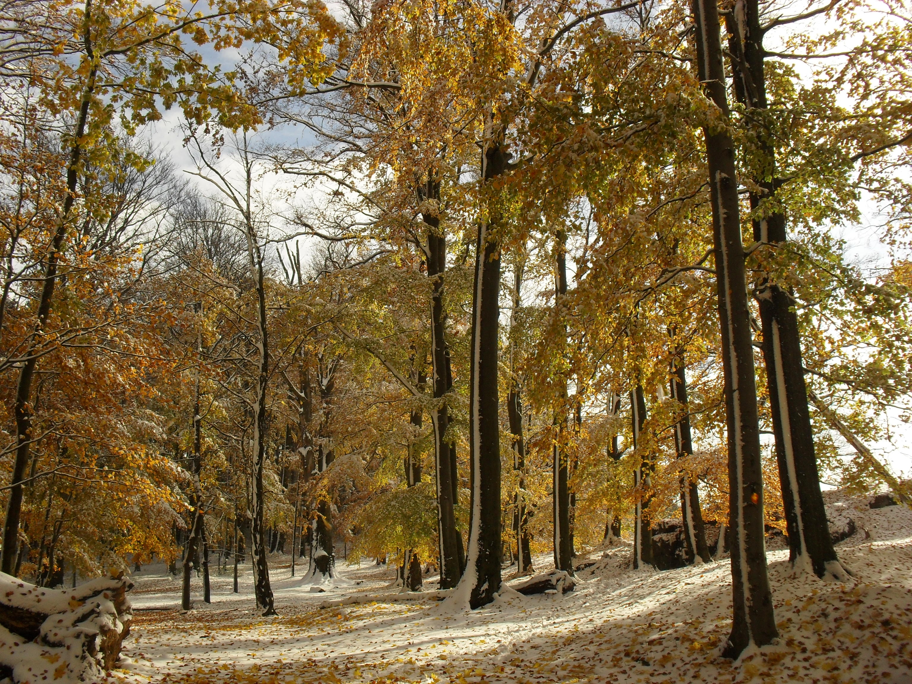 First snow fall 2012, nature reserve Oheb, Železné hory